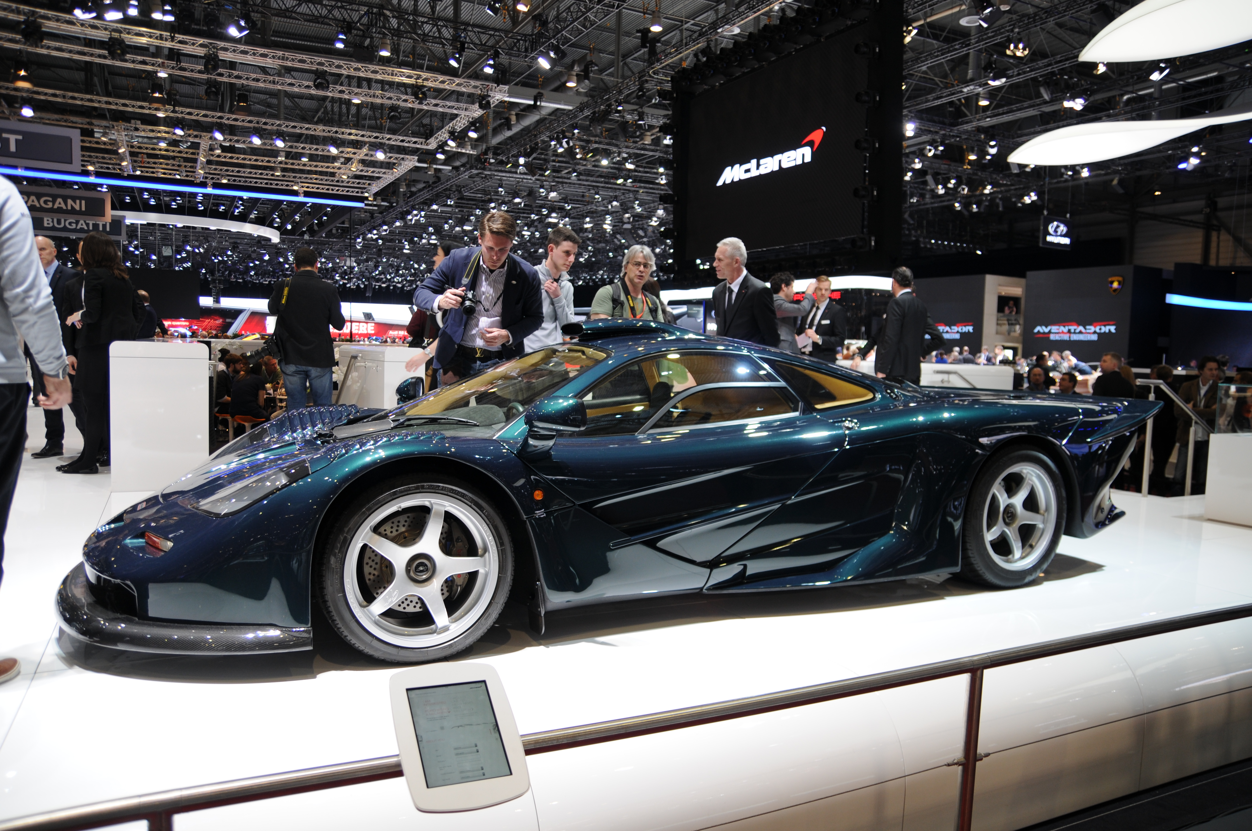 Geneva Motor Show 2015 (photo taken on the first press day)